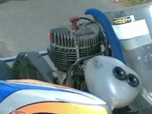 TKM Engine on Venom kart